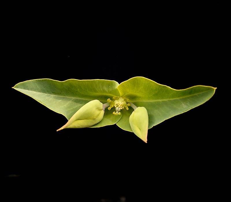 Euphorbia lathyris